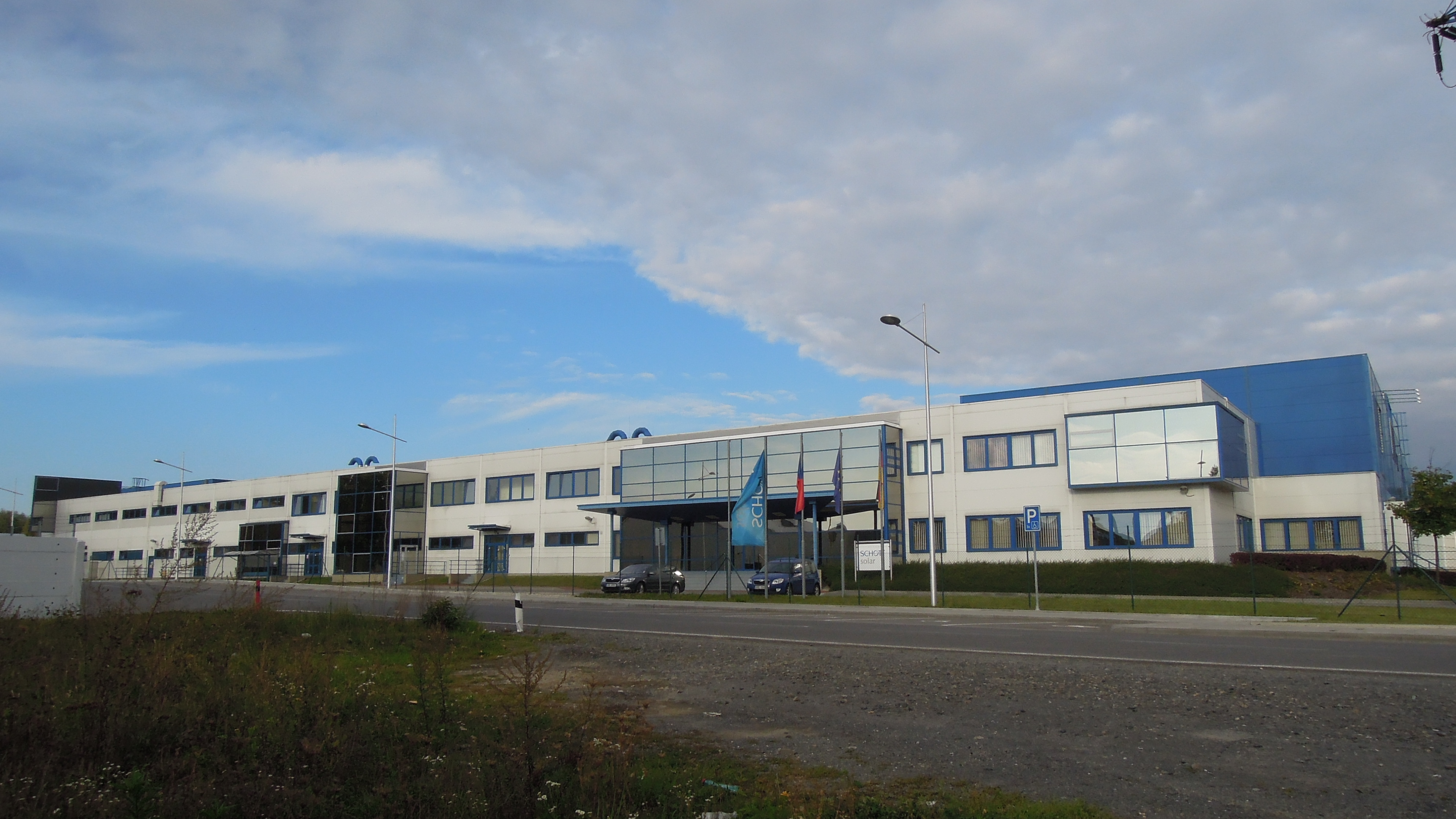 Building of SCHOTT Solar company in Valašské Meziříčí, Czech Republic